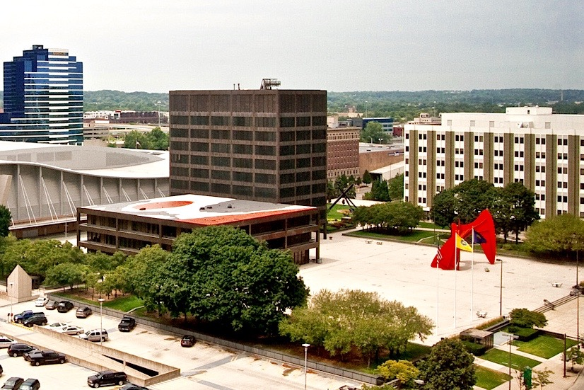 Calder Plaza in Grand Rapids, MI.